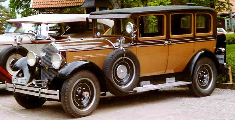 Packard Sixth Series 626 Eight 4-Door Sedan 1929